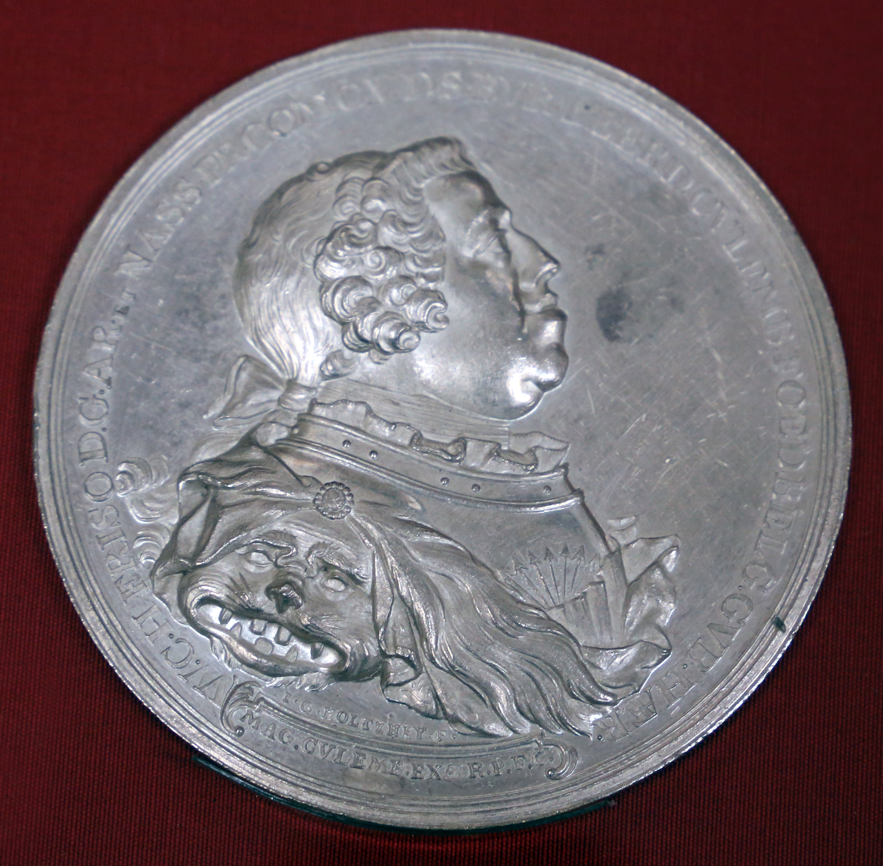 William IV, Prince of Orange (1711-1751). Medals in the Teylers Museum